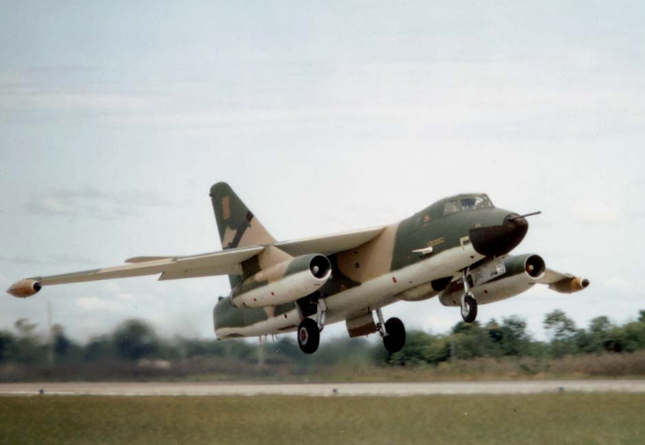 A U.S. Air Force Douglas RB-66C Destroyer taking off.